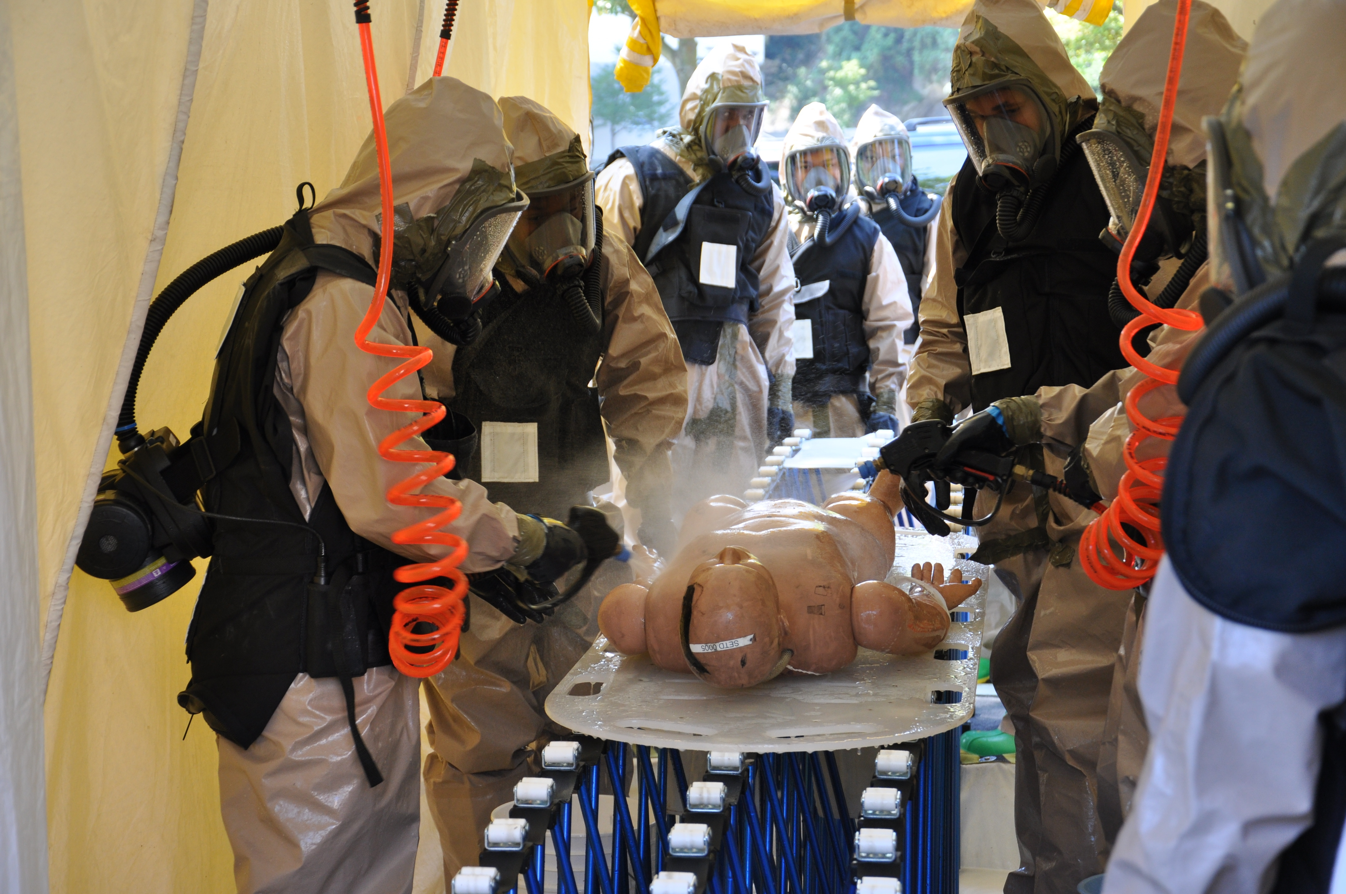 YOKOSUKA, Japan (Sept. 16, 2010) The decontamination team at U.S. Naval Hospital Yokosuka decontaminates a simulated patient during a training session. The training was required by U.S. Navy Bureau of Medicine and Surgery and included a timed exercise where the team set up all equipment, donned personal protective equipment and decontaminated two patients in less than 20 minutes. (U.S. Navy photo by Richard McManus/Released)